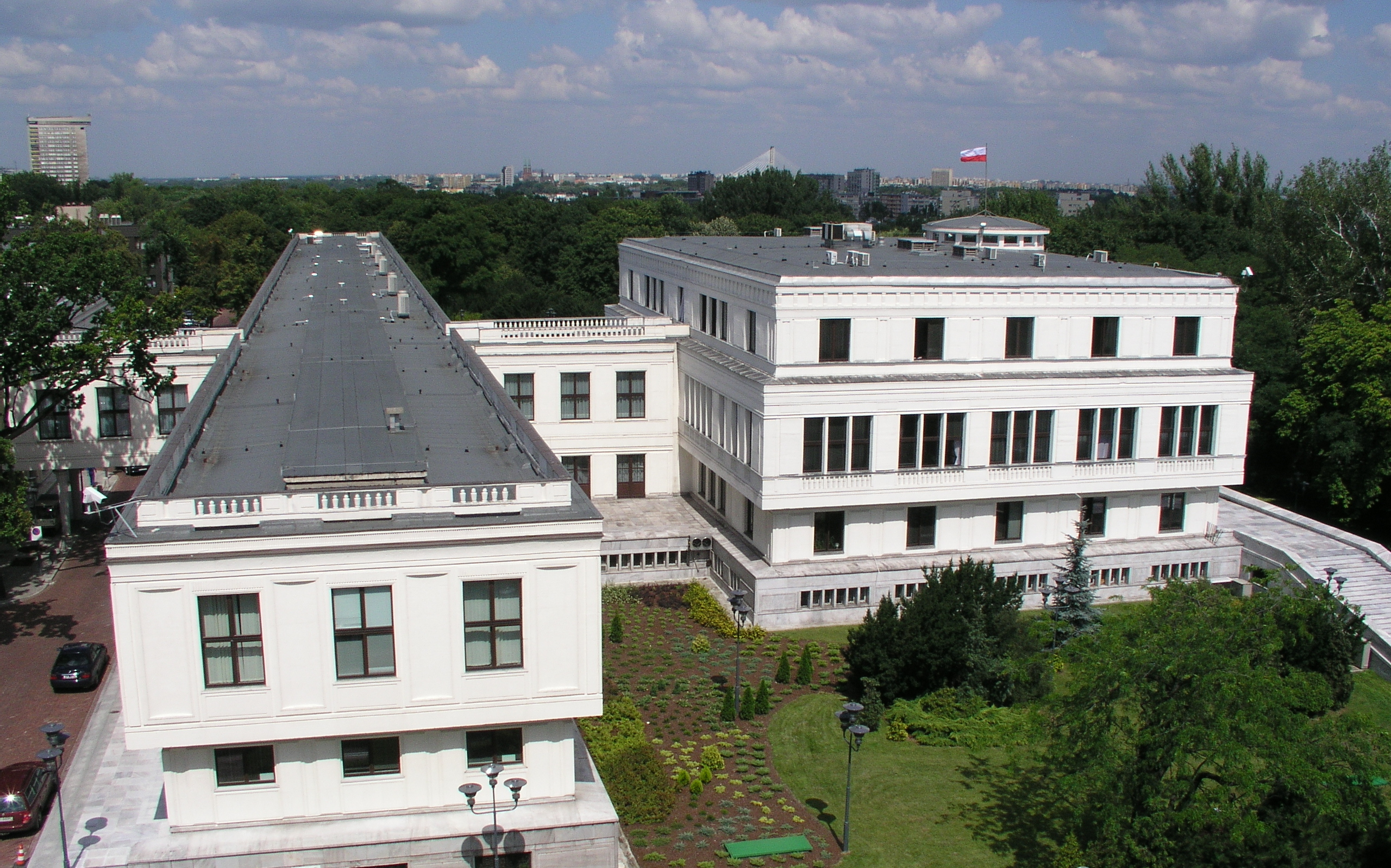 Building of the Senate of the Republic of Poland